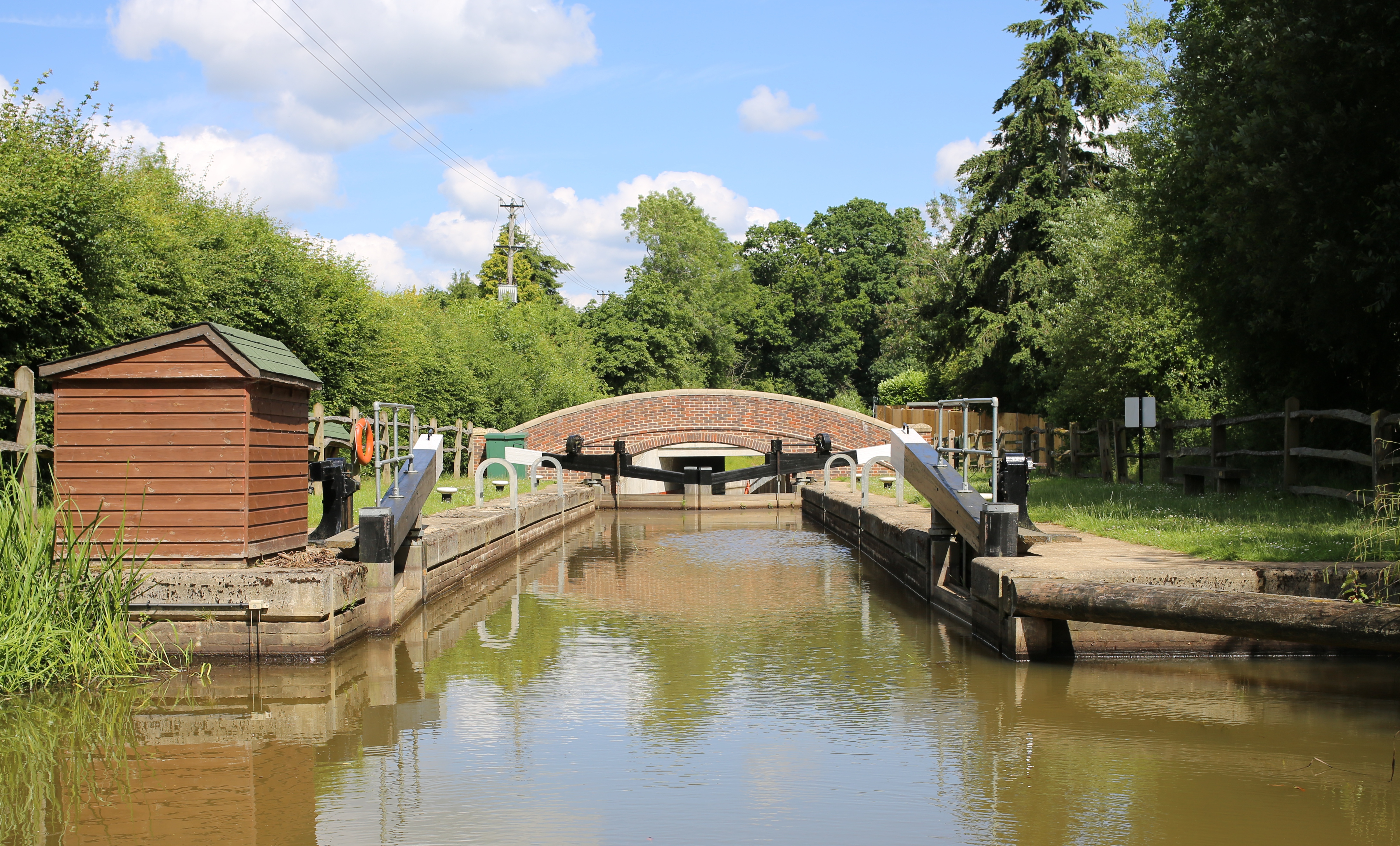 Photo of Loxwood new lock on the Wey and Arun Canal